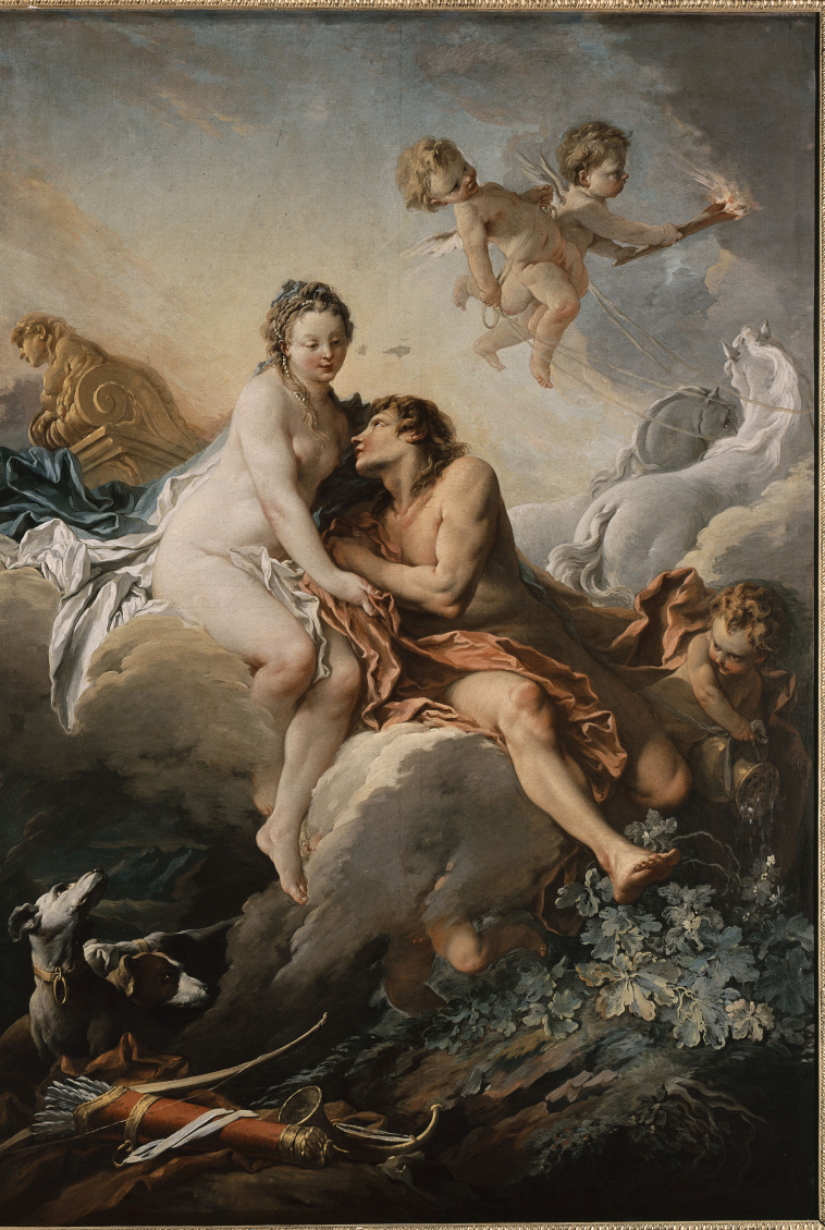 L'Aurore et Céphale, 1733, 250x175cm, Nancy, musée des Beaux-Arts